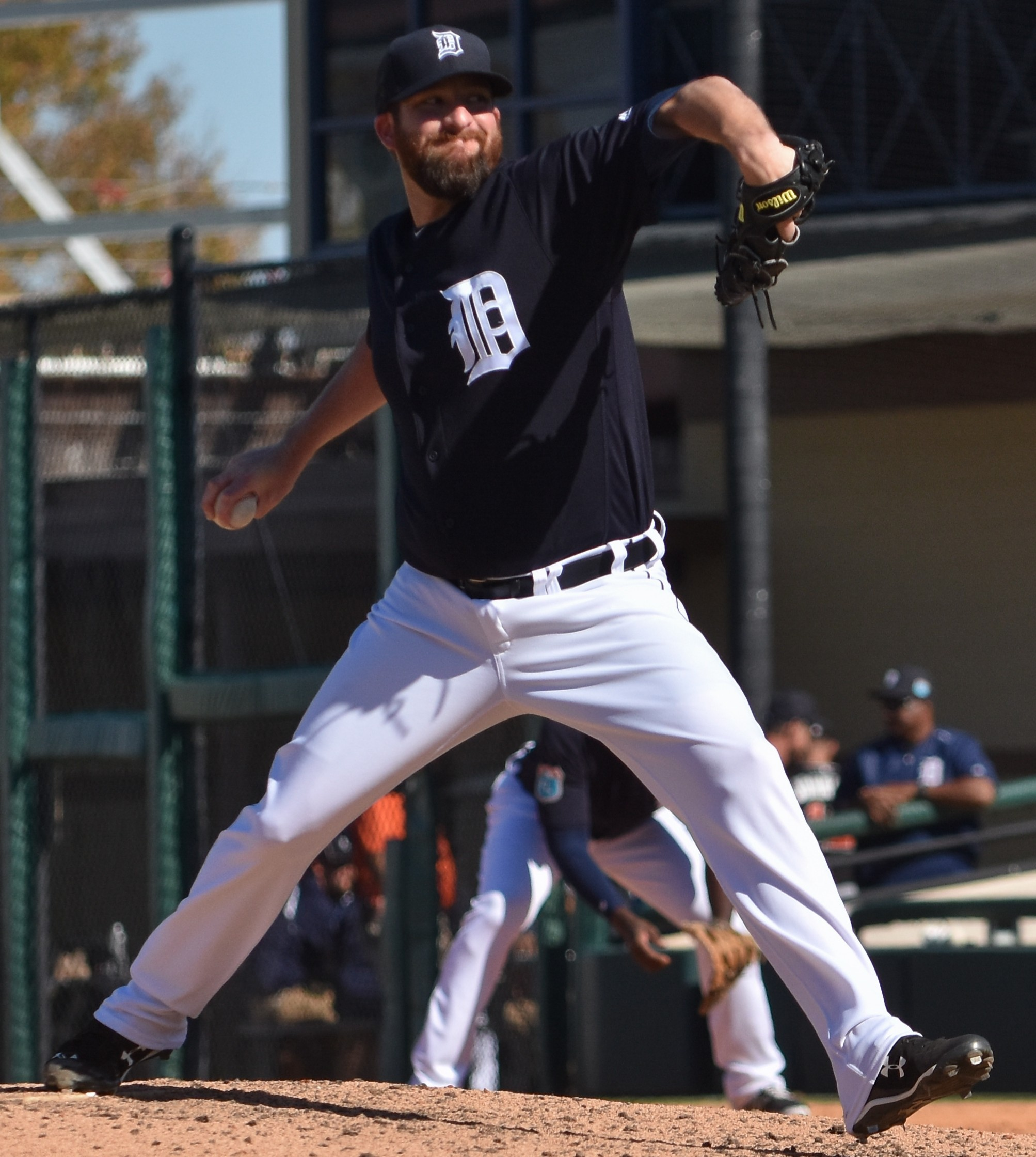 Bobby Parnell. Detroit Tigers v. Miami Marlins. Joker Marchant Stadium. Lakeland, Fla. March 6, 2016. Photo by Tom Hagerty.